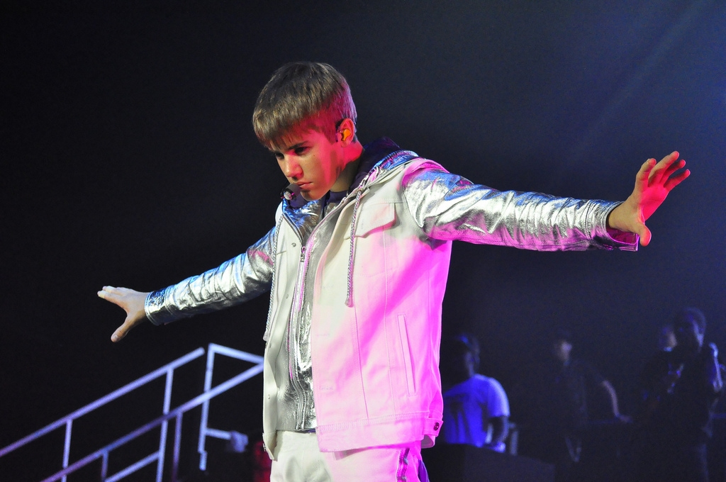 Justin Bieber at the Sentul International Convention Center in West Java, Indonesia